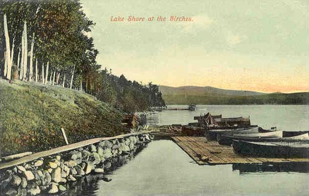 Lake Shore at "the Birches," Moosehead Lake, ME; from a 1912 postcard.